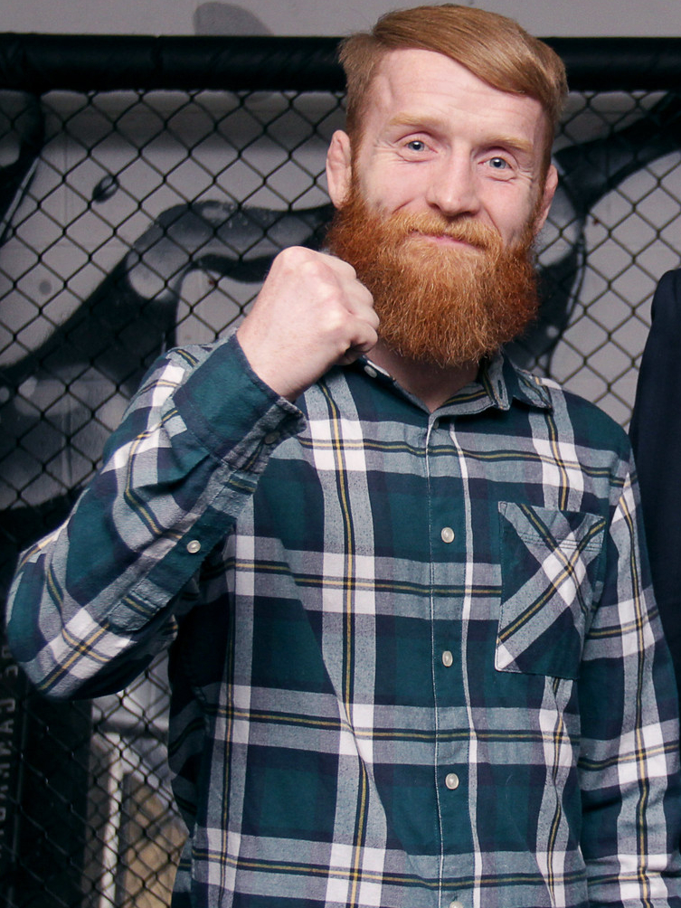 Photograph of Irish Mixed Martial Artist and Sinn Féin politician Paddy Holohan in 2019